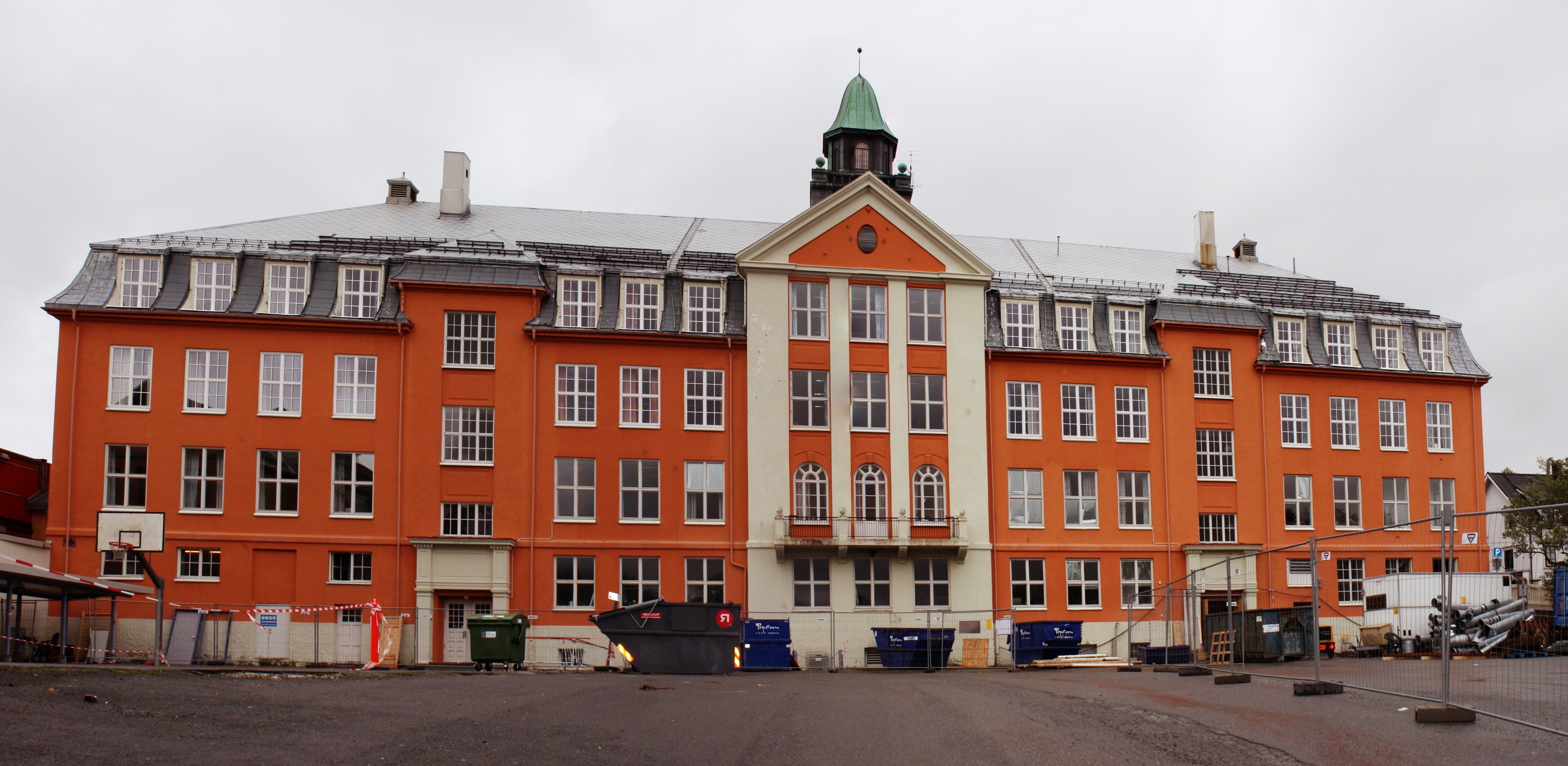 Kongsbakken videregående skole in Tromsø, Norway.